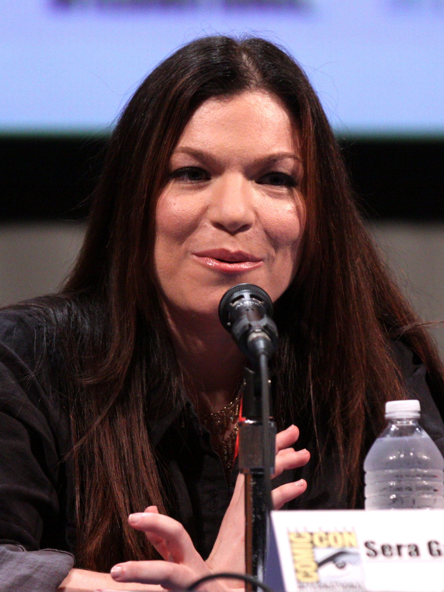 Sera Gamble at the 2011 Comic Con in San Diego